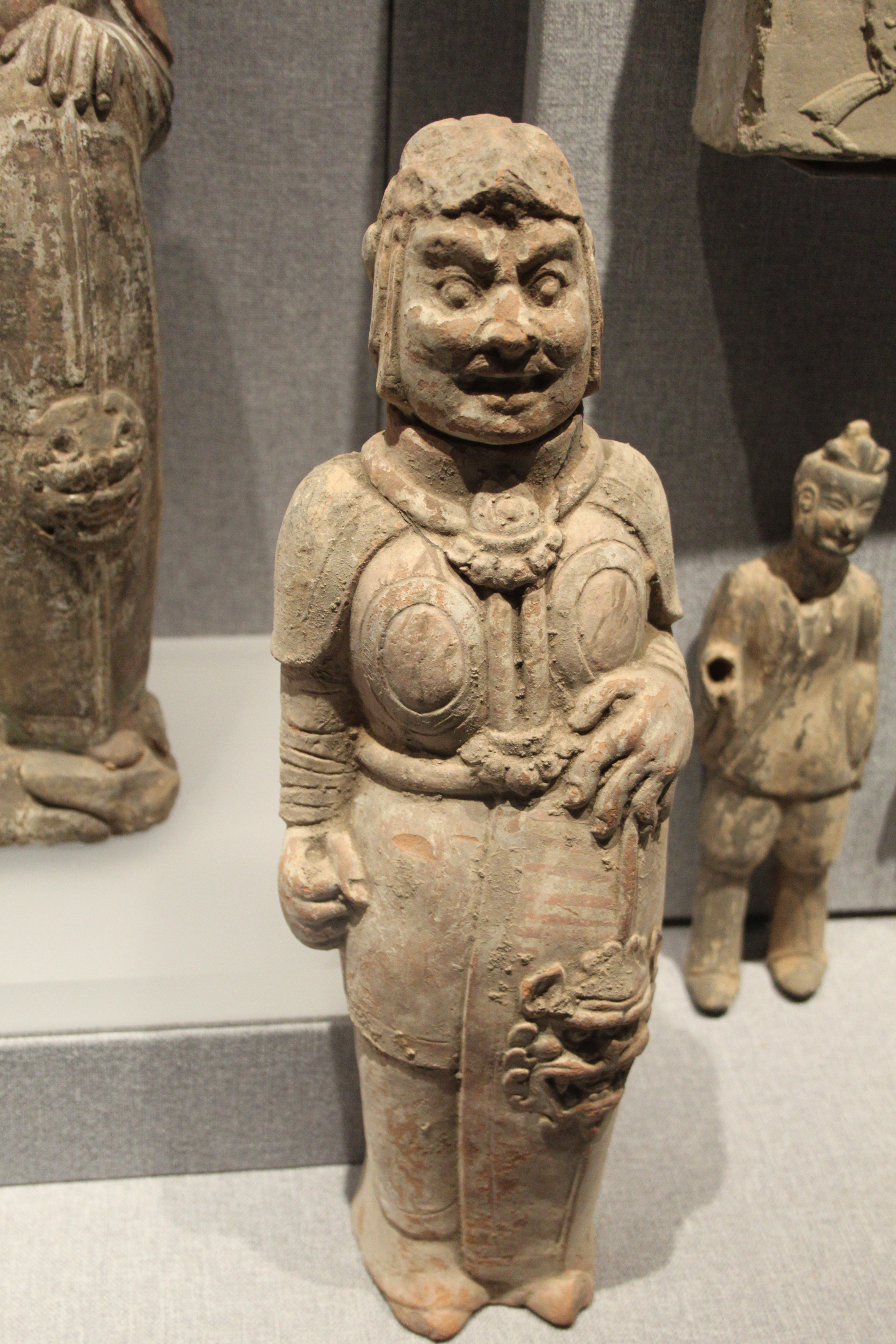 nordynasty soldier